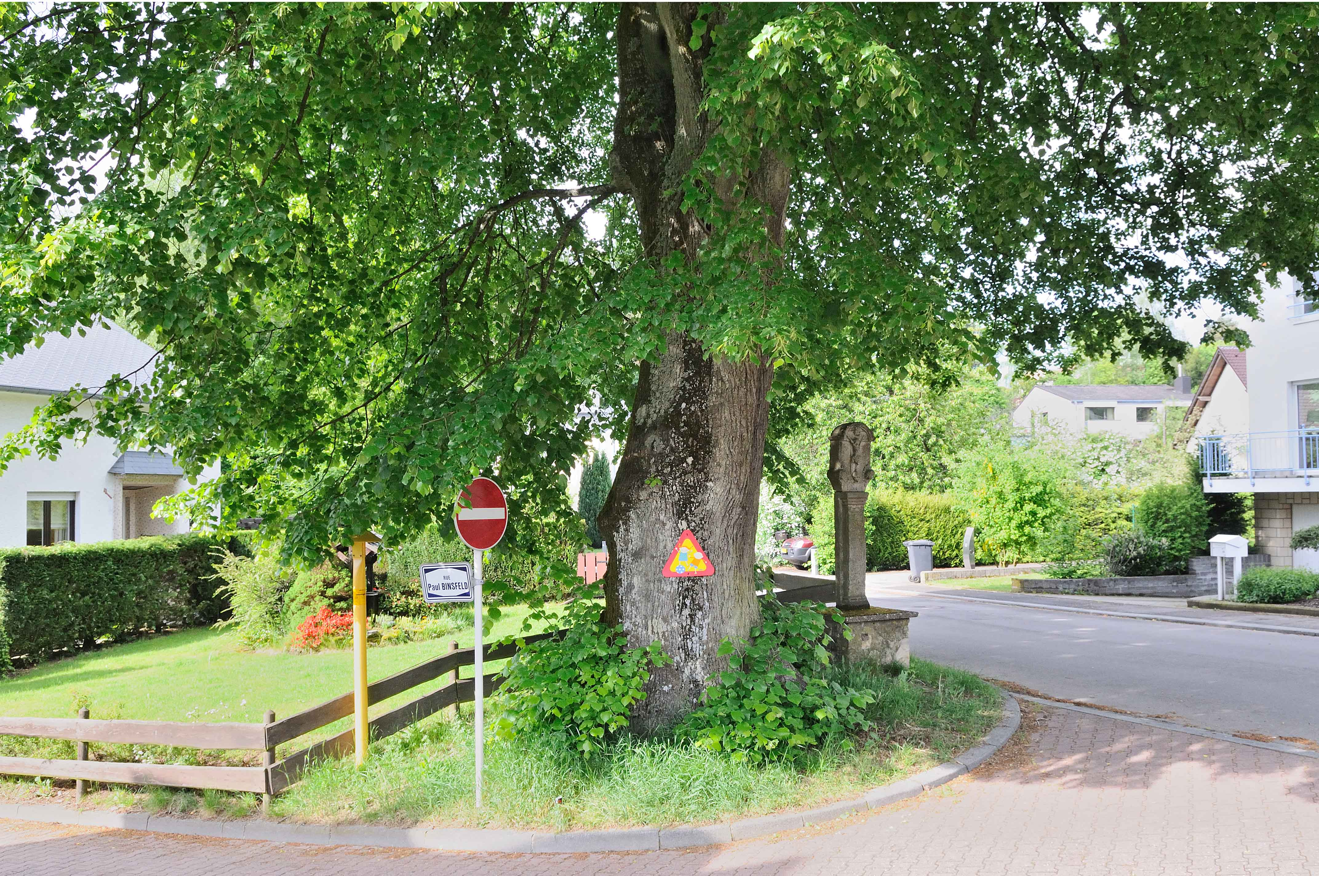 Luxembourg, Bridel: Lime tree listed with the Remarkable trees in Luxembourg. |fr|Luxembourg, Bridel: le tilleul classé 'arbre remarquable' au Luxembourg.